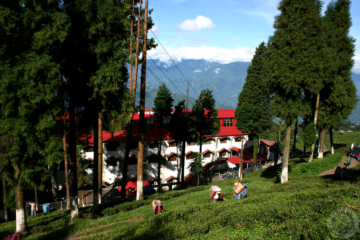 A view of Happy Valley Tea Estate in Darjeeling. It's the nearest Darjeeling Tea estate which is at a walking distance from Darjeeling town. It's an organic Darjeeling Tea estate producing excellent varieties of Darjeeling Tea.